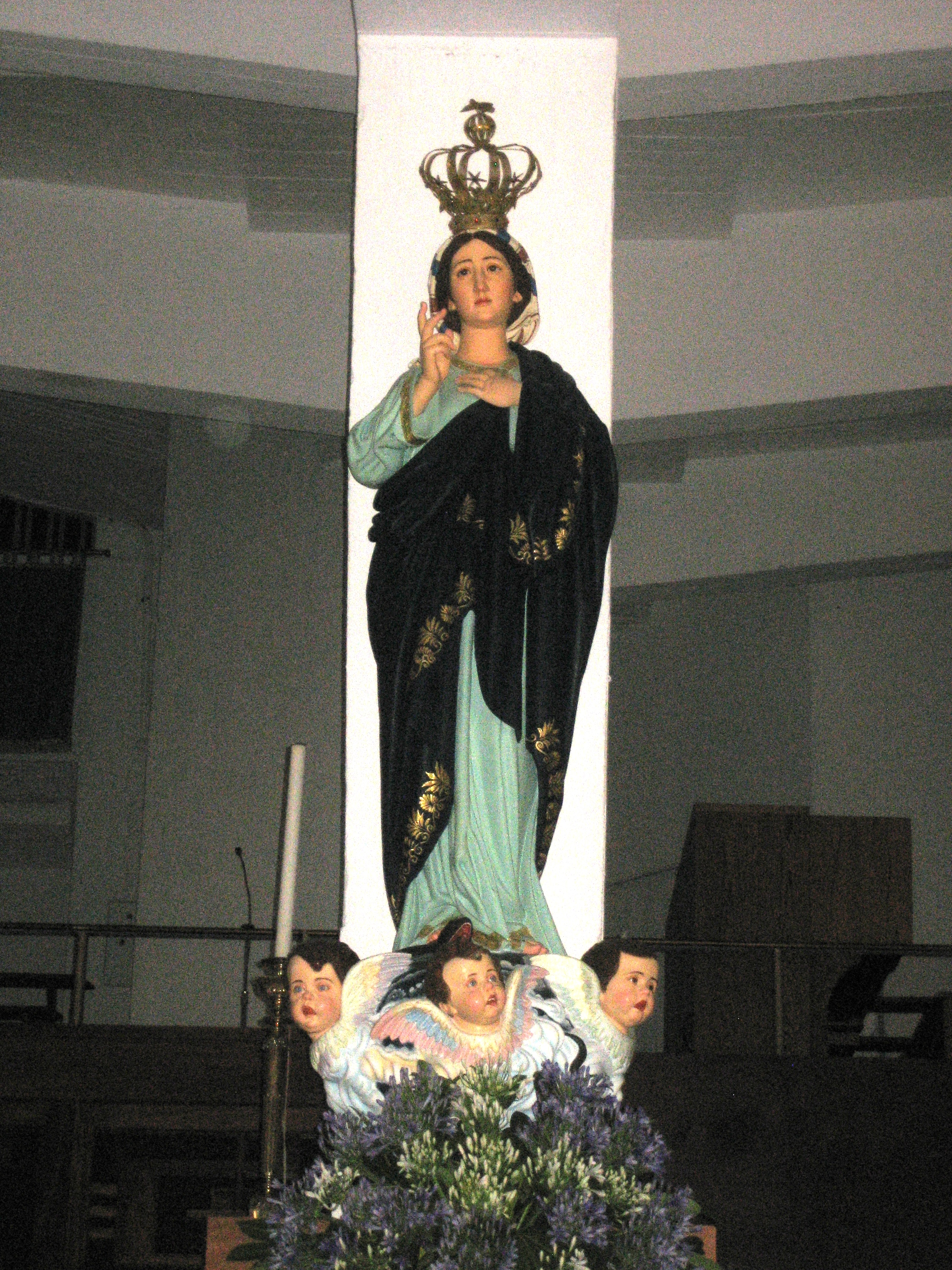 Statue in basement of Basílica Nossa Senhora do Sameiro (Braga, Portugal)